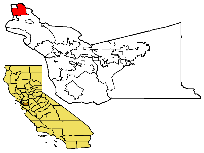 Map of the City of Berkeley within Alameda County, with County highlighted in California. I created this by changing Image:Oakland in Alameda County.png made by User:Mackerm. He created that image from US Census Bureau data, & released it into to the Public Domain. Category:California city locator maps